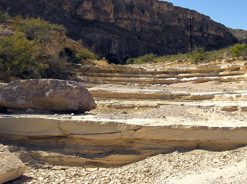 Opportunity to admire nature's work